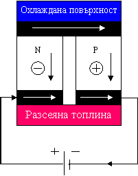 A diagram of a thermoelectric cooler, with labels in an unknown language.